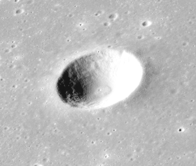 Oblique view of Deseilligny crater, within Mare Serenitatis, facing south, on the moon. Taken by Apollo 15 panoramic camera.